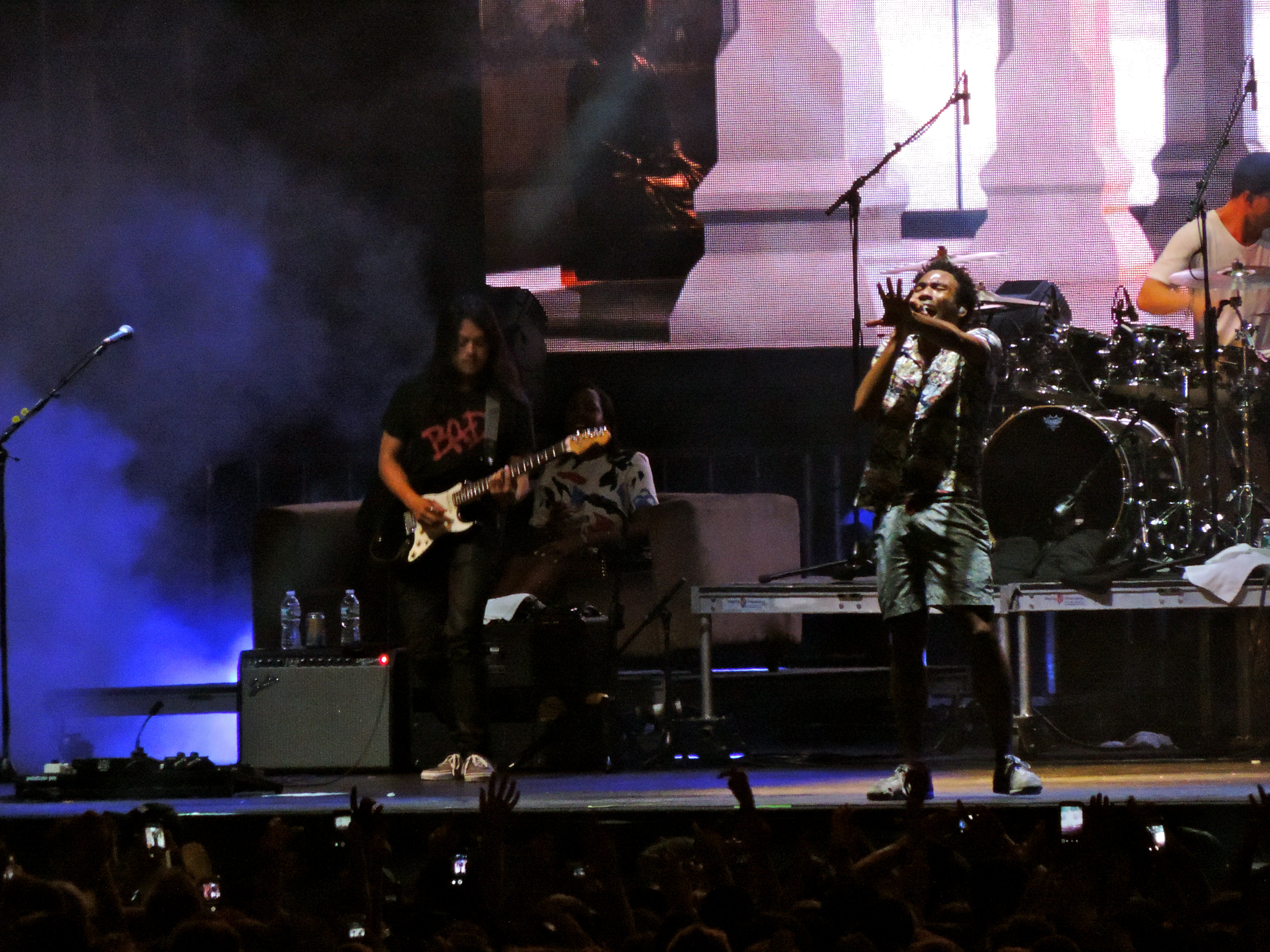 Childish Gambino